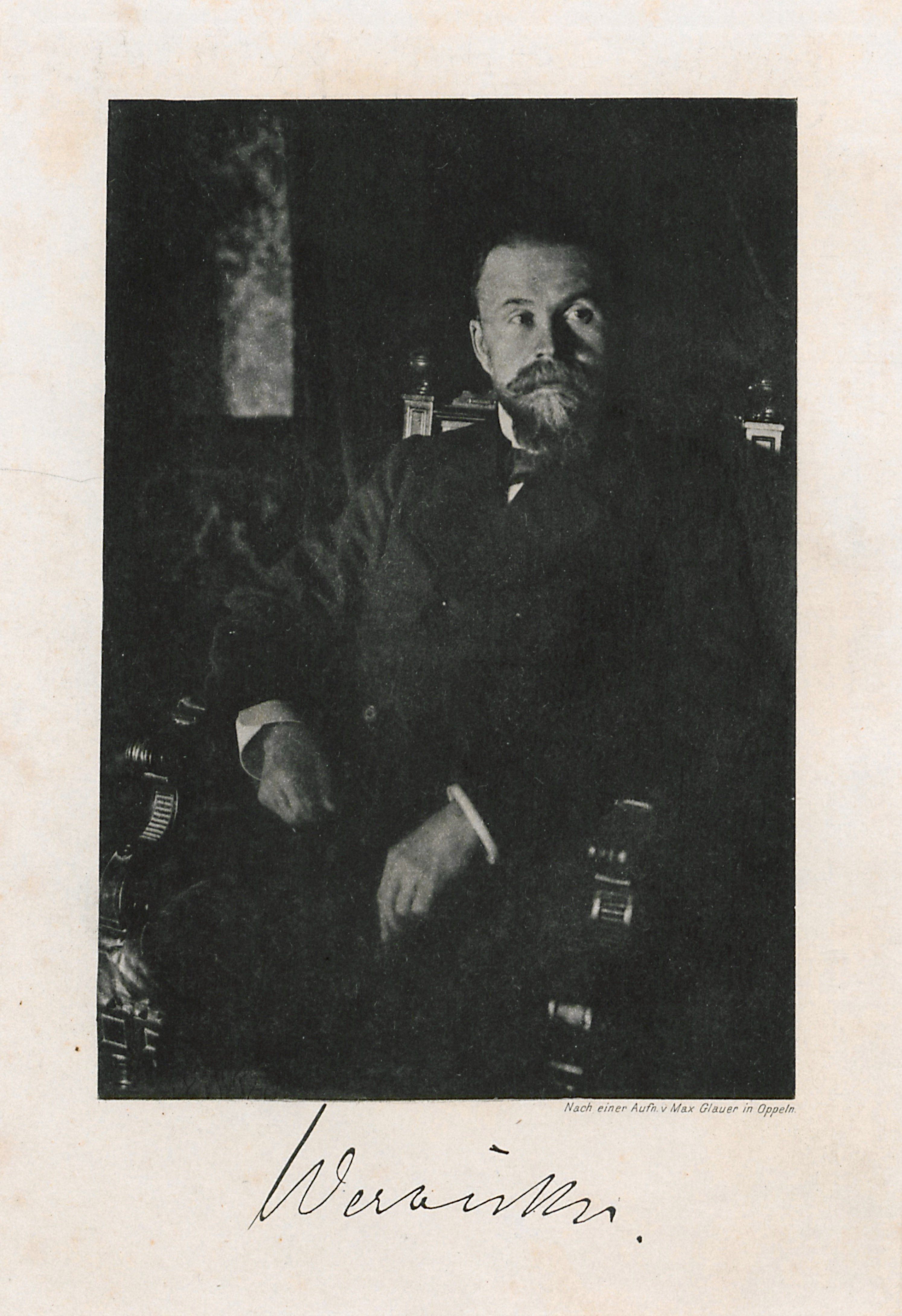 German psychiatrist Carl Wernicke